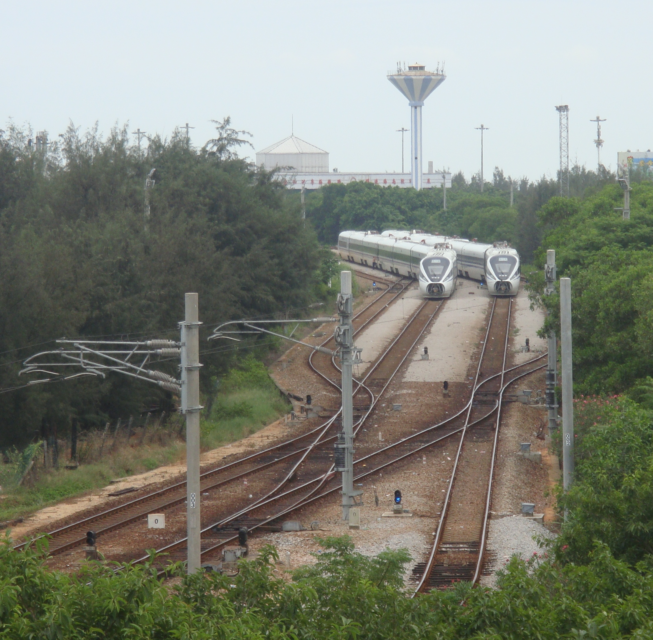 China Railways CRH1A-A trains on the short lines between the Haikou Railway Station and South Port, Haikou, Hainan, China